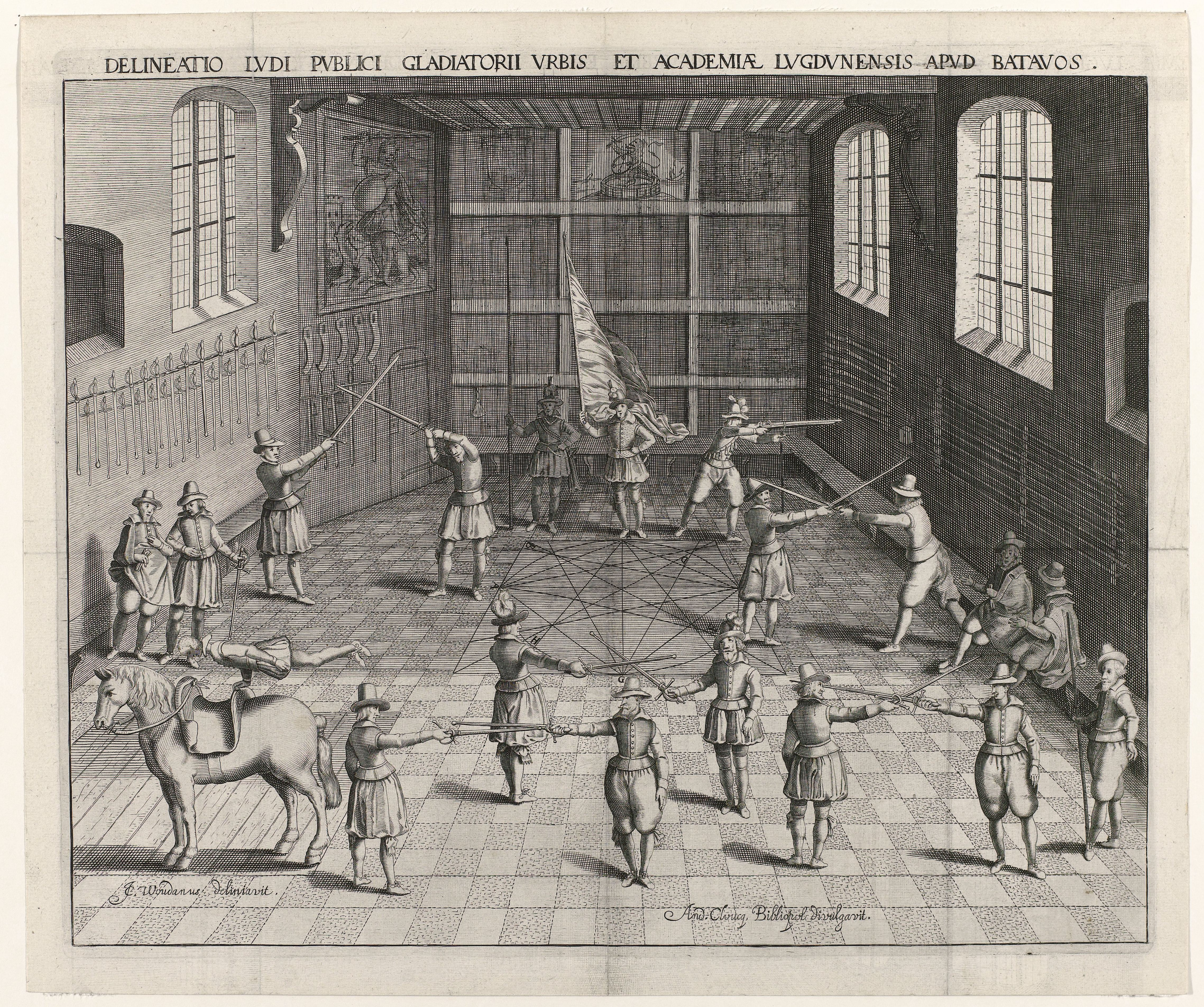 Fencing School at Leiden University, 1610. Engraving by Willem Swanenburgh; drawing by Johannes Woudanus